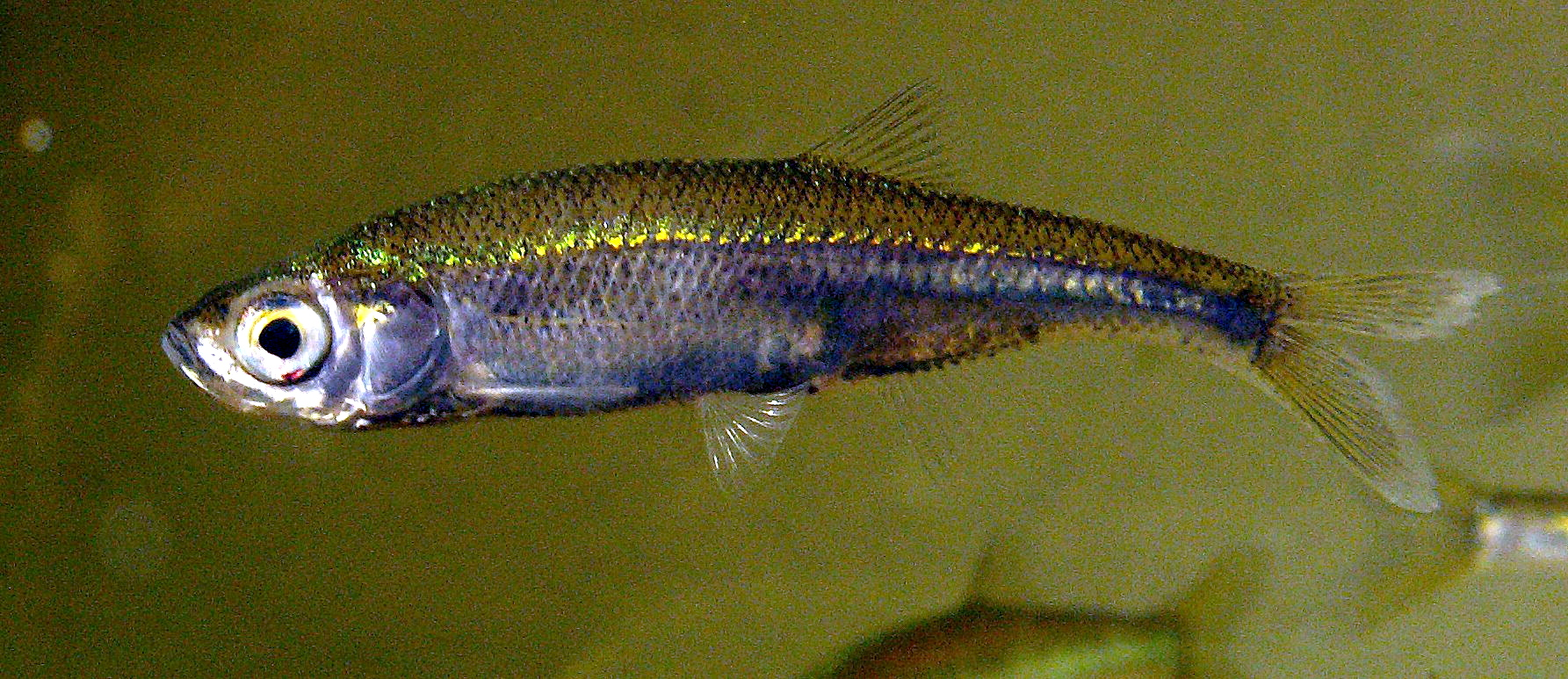 Male Leucaspius delineatus, from Hoensbroek, the Netherlands